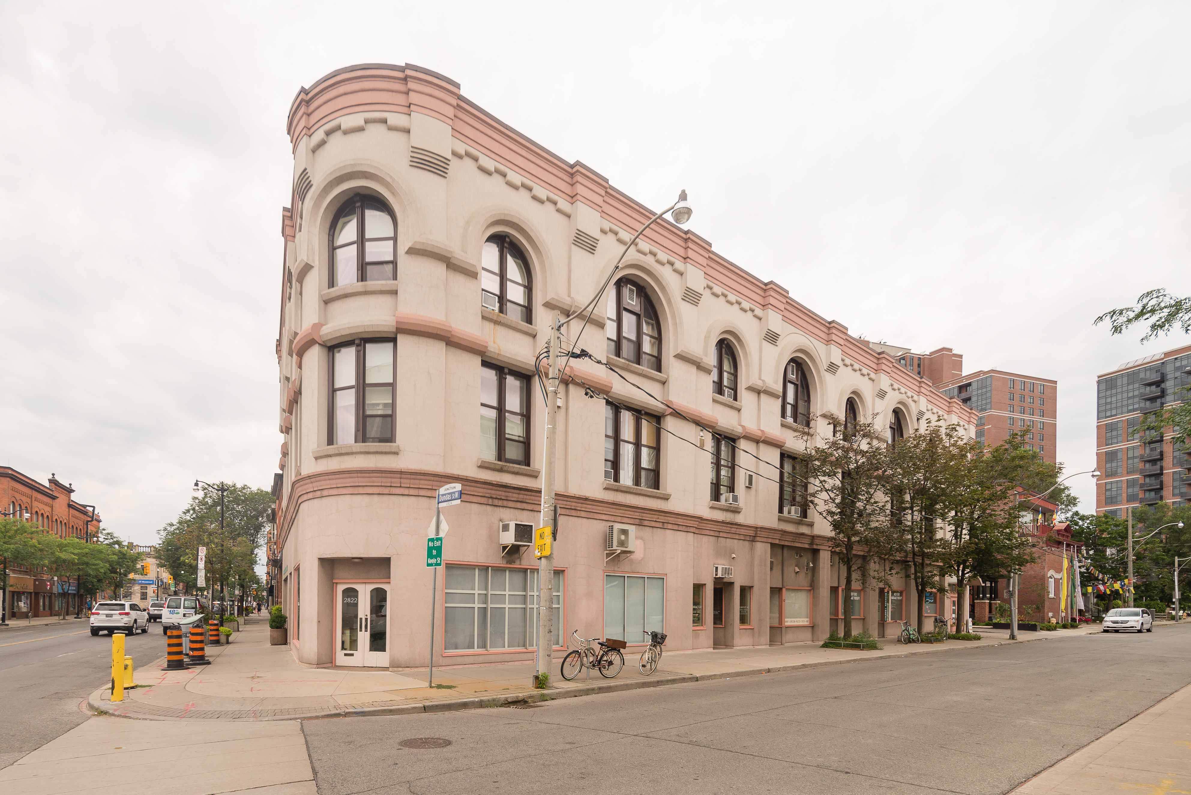 Buildings on Dundas Street West in The Junction, Toronto.